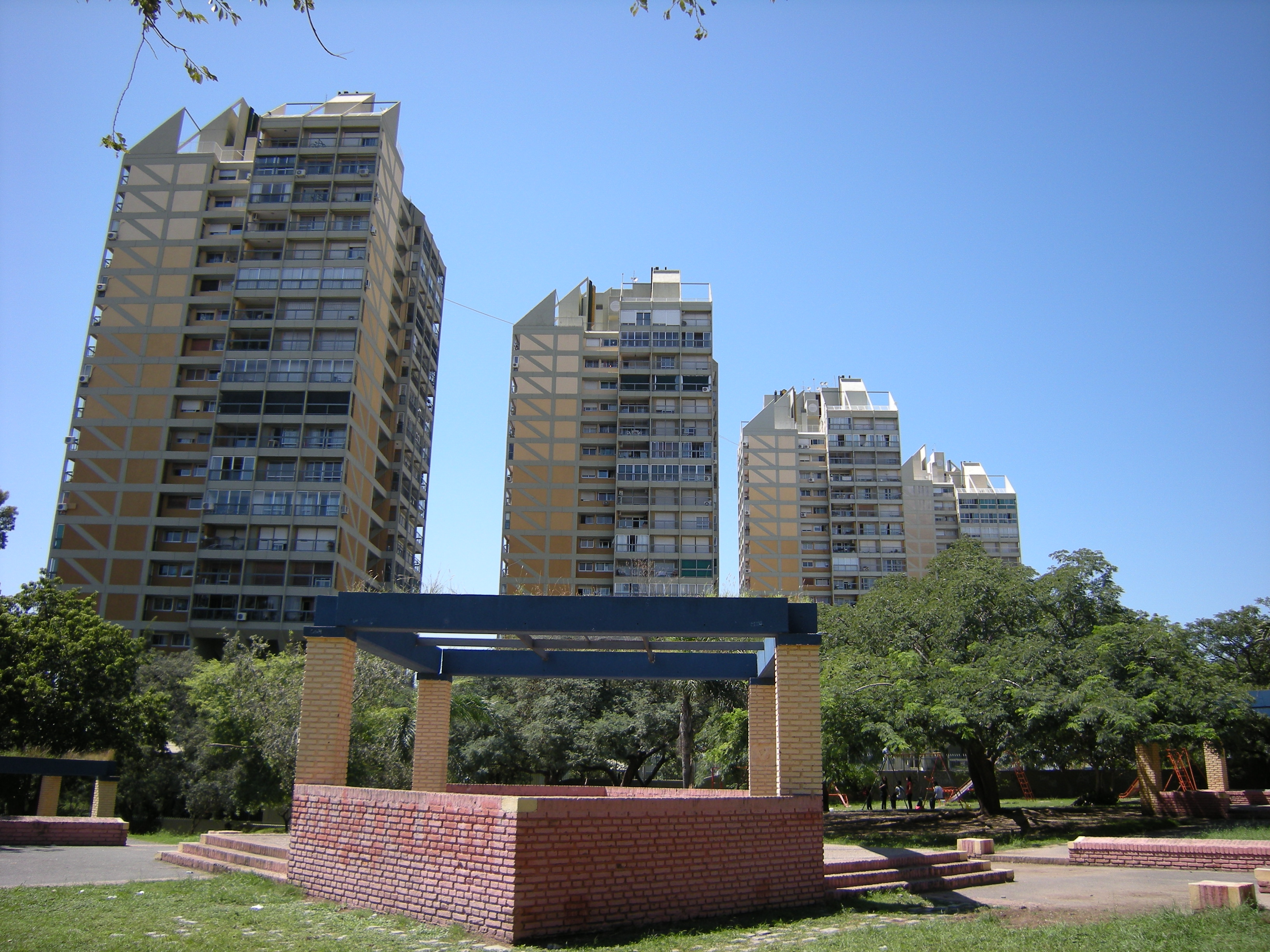 Dr. Roberto Cisneros Plaza and the Alas Towers, in Barrio Alberdi, Córdoba Province, Argentina.